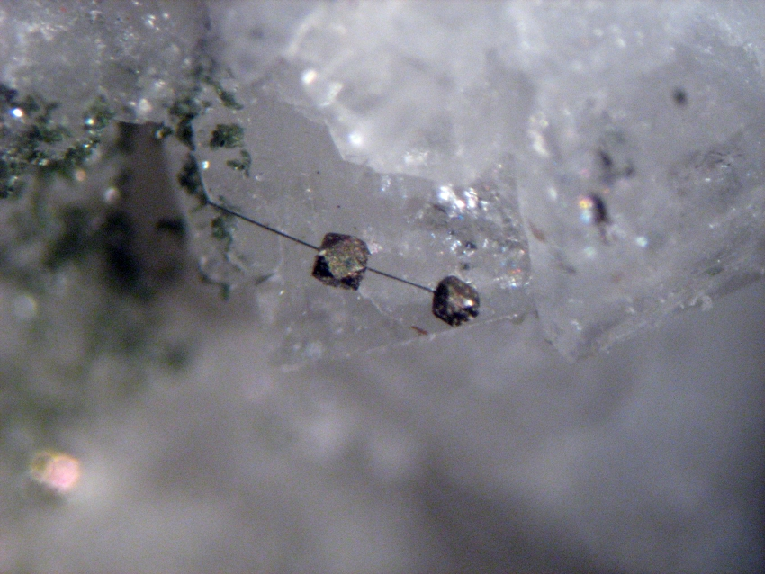 Bismuthinite, Pyrite Locality: Beura Quarries, Beura-Cardezza, Ossola Valley, Verbano-Cusio-Ossola Province, Piedmont, Italy Bismutinite with curious crystallization of pyrite crystal size of 1 mm. Photos and collectors Edoardo Mazzola